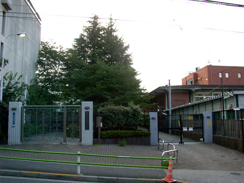 Mita Junior High School.